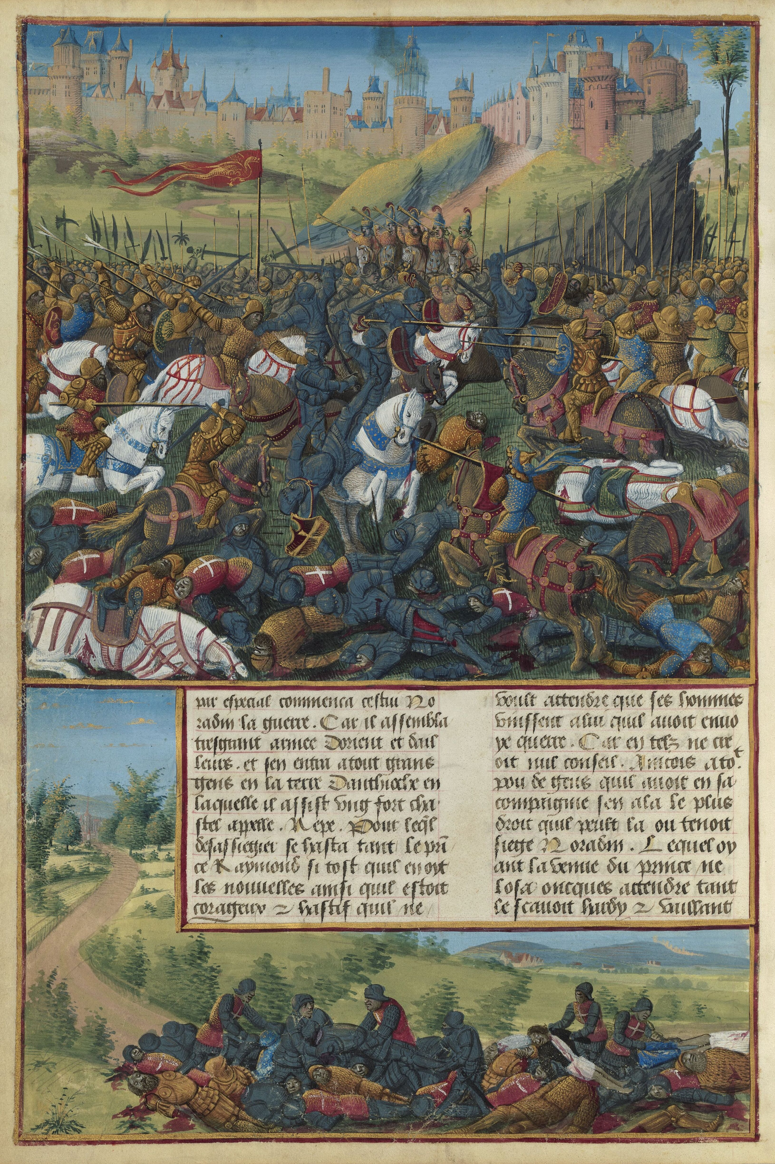 Battle Of Inab (also named Ard al-Hatim)